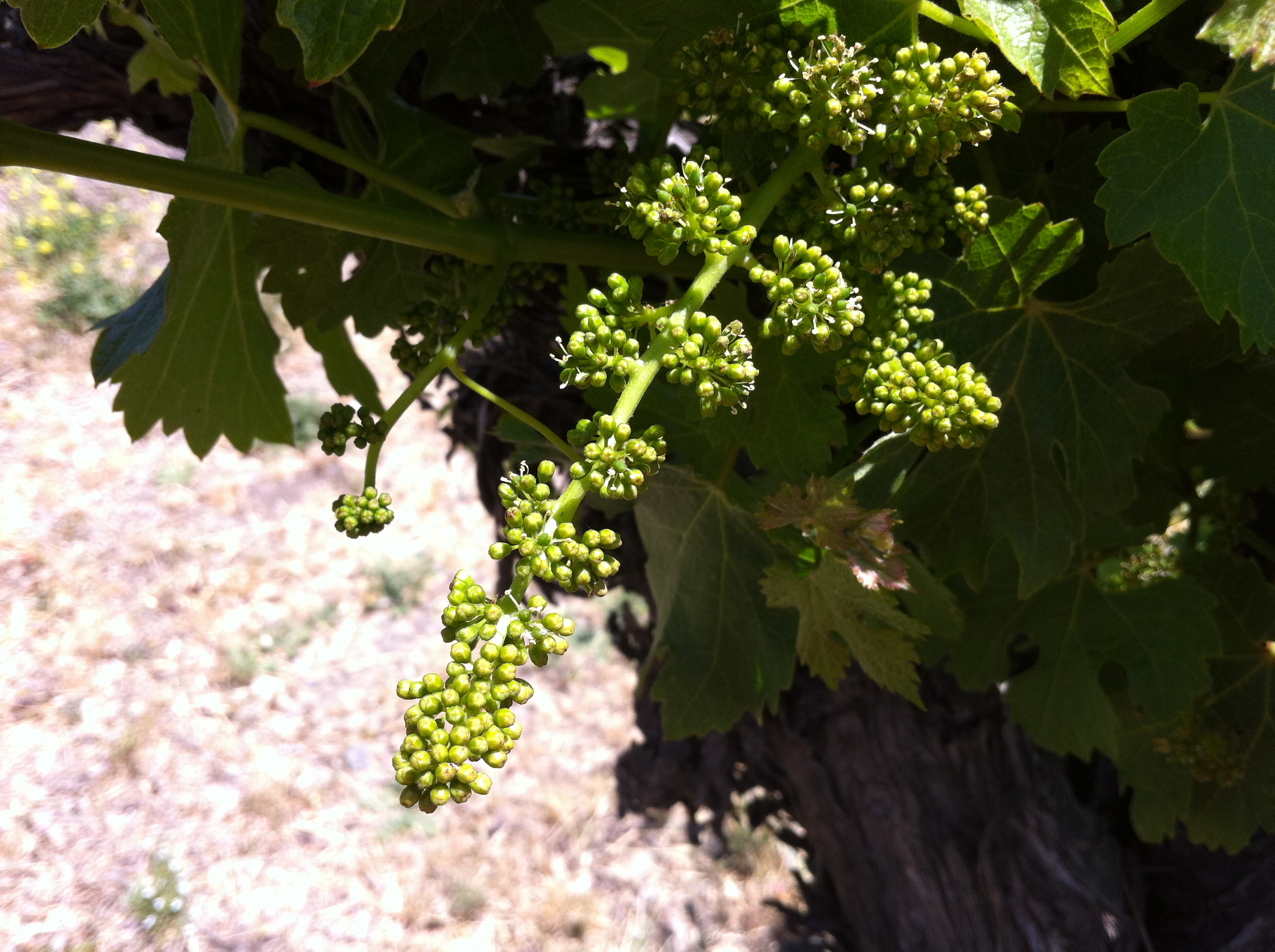 Petite Sirah vines in bloom at Concannon vineyards in the Livermore Valley AVA of California